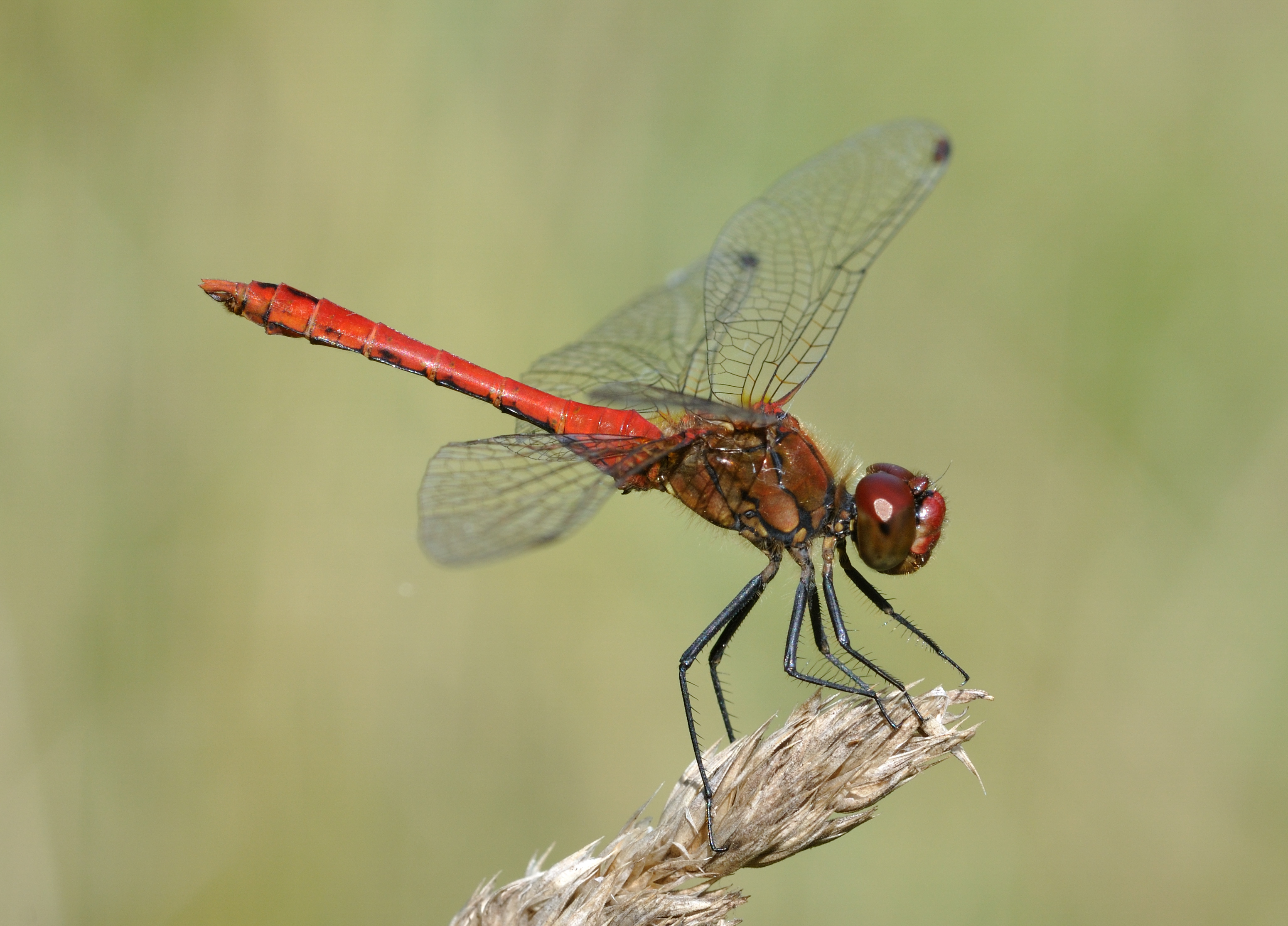 Male Ruddy Darter (Sympetrum sanguineum) in obelisk posture near the old airstrip, Frankfurt, Germany.